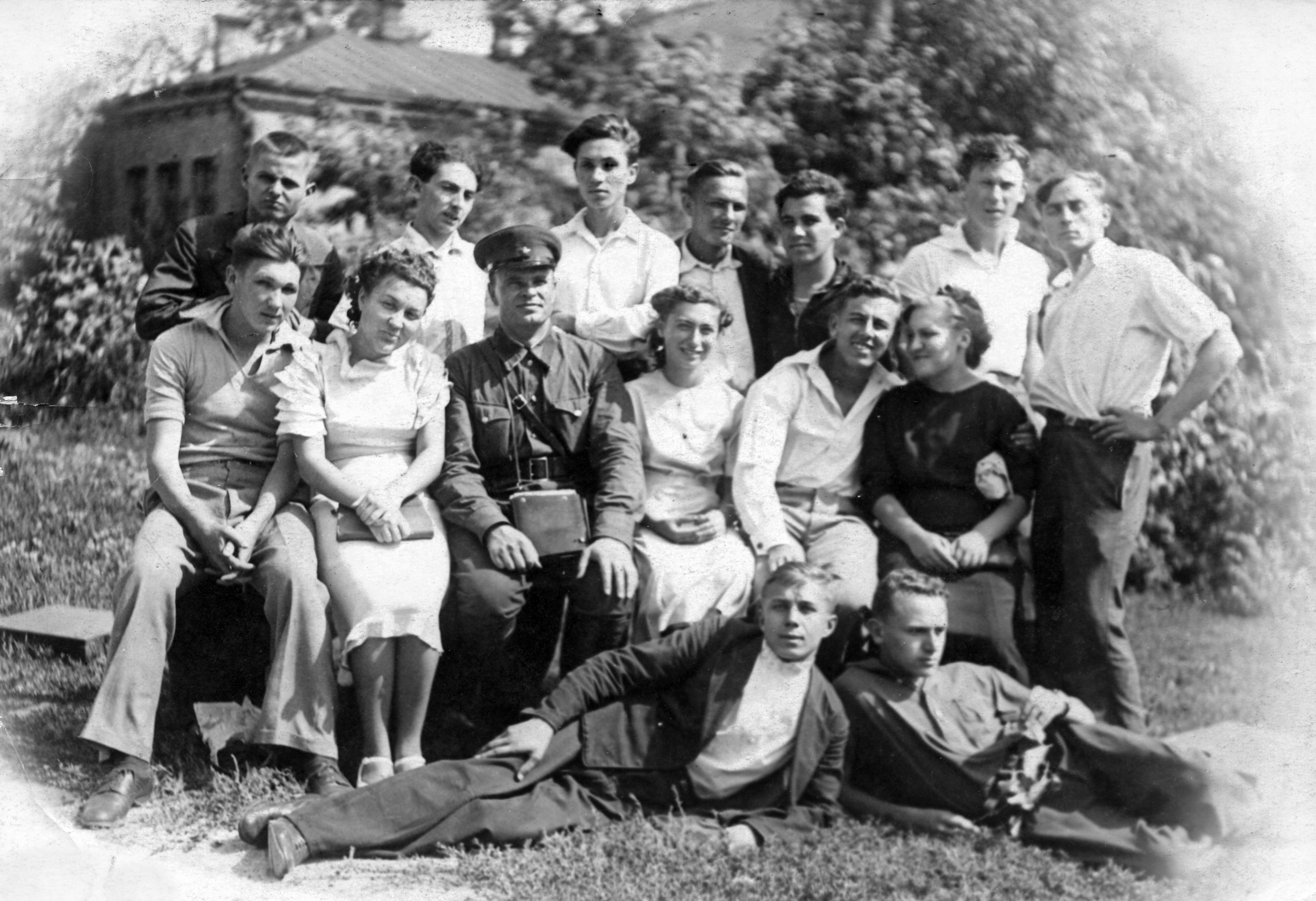 The first graduation class from the Shevchenko State Art School in Kyiv, 1940. Peter Kravchenko is second from the right, top row. Olha Krylova is seated second from the left. Because of the war, all graduates were automatically conscripted into the Soviet Army. The building in the background is most likely №5 Desyatynnyi Lane (Десятинний провулок, 5), one of the oldest streets in Kyiv. This building was controversially demolished in 2012.